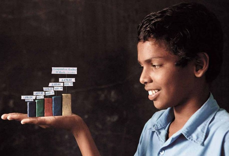 Akshaya Patra time line